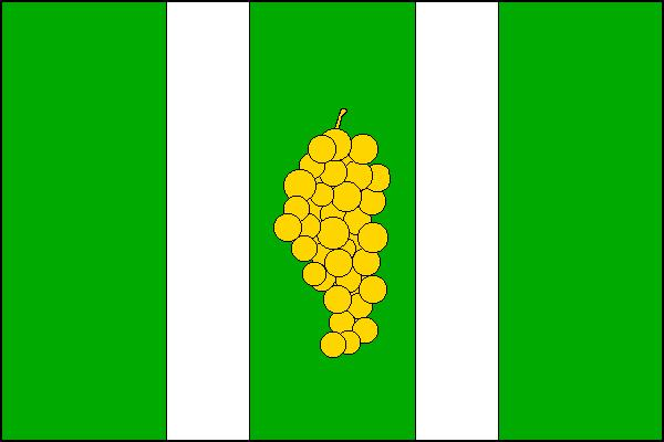 Municipal flag of Starý Poddvorov village, Hodonín District, Czech Republic.